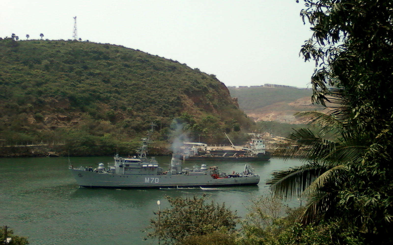 View of a naval ship near inner harbour at Visakhapatnam port, Andhra Pradesh